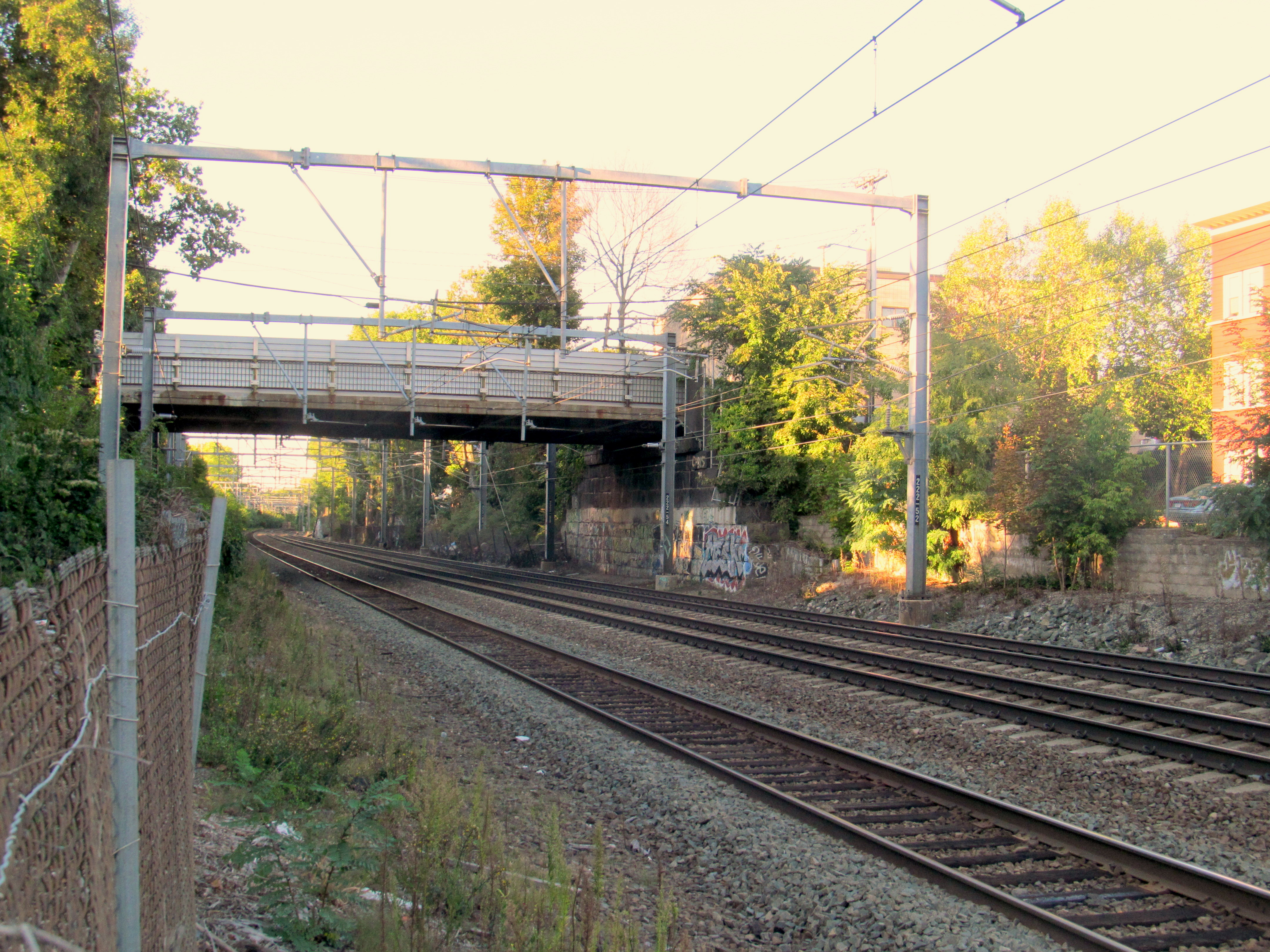 Former site of Mount Hope station in September 2016